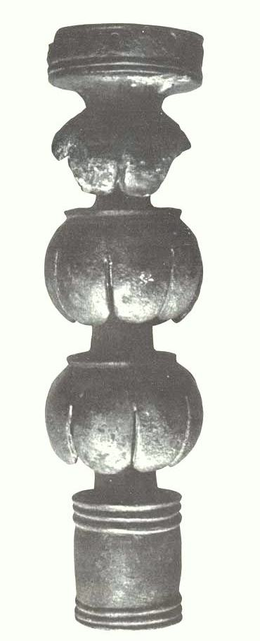 Nuragic sanctuary of Santa Vittoria (Serri - Sardinia - Italy) - torch holder now at the Archaelogical museum of Cagliari